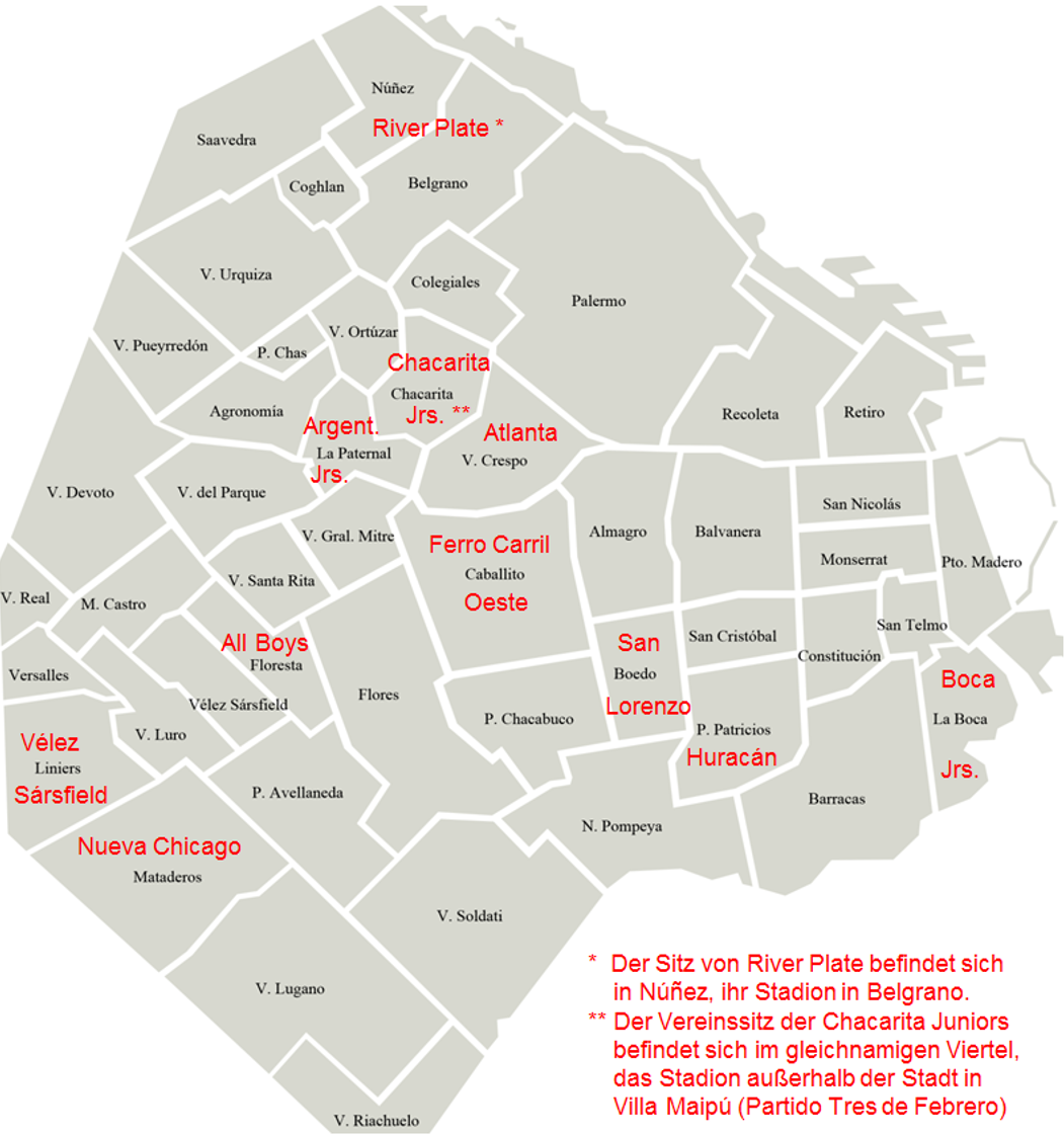 Map of Buenos Aires City with the district names written in black and the football club names written in red